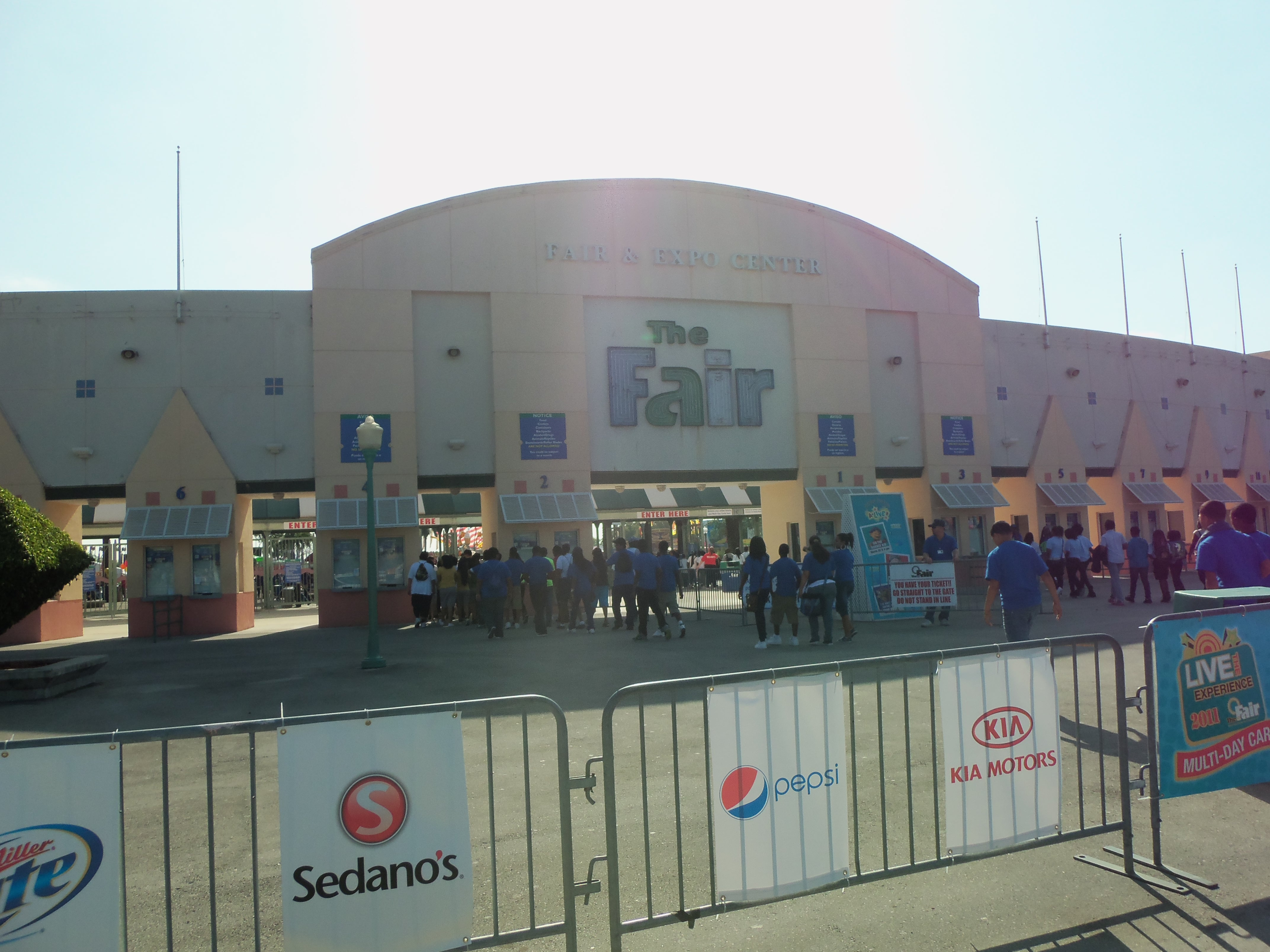 Entrance into the Miami-Dade County Youth Fair